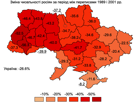 The change of the number of russians in Ukraine between 1989 and 2001 censuses